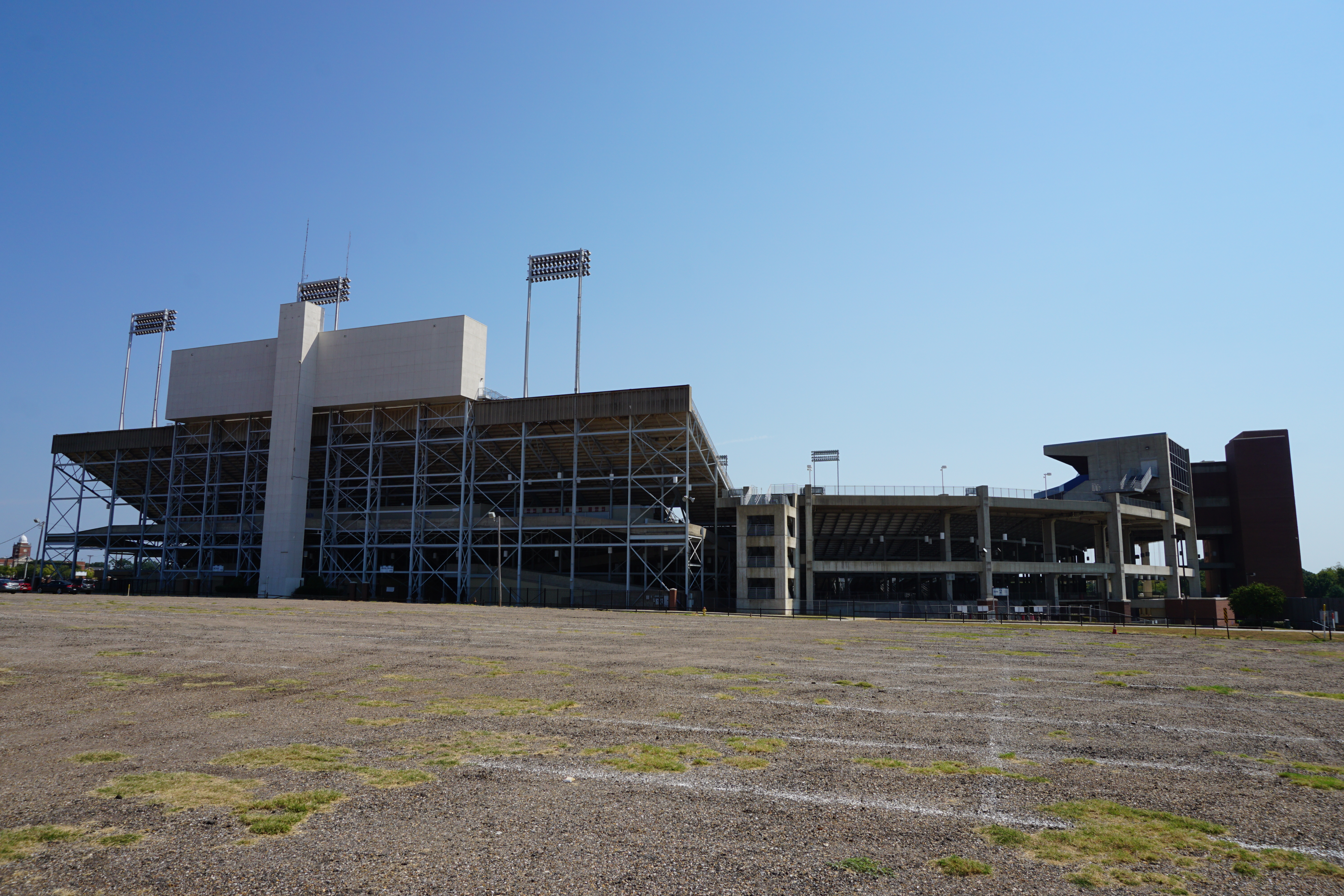 Independence Stadium in Shreveport, Louisiana (United States).